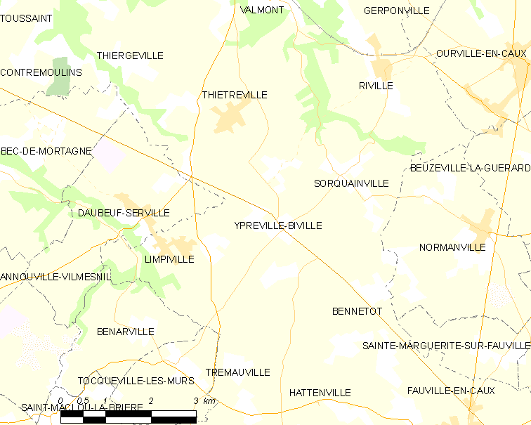 Map of French municipality Ypreville-Biville